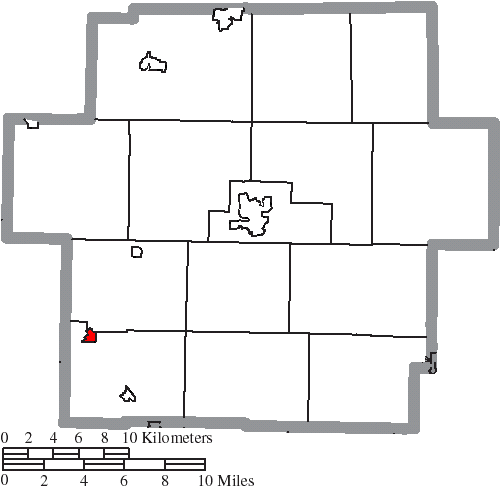 Map of the municipal and township boundaries of Carroll County, Ohio, United States, as of the 2000 census, with the location of the village of Sherrodsville highlighted. Township borders are shown only in unincorporated areas in order to differentiate incorporated and unincorporated areas more clearly.